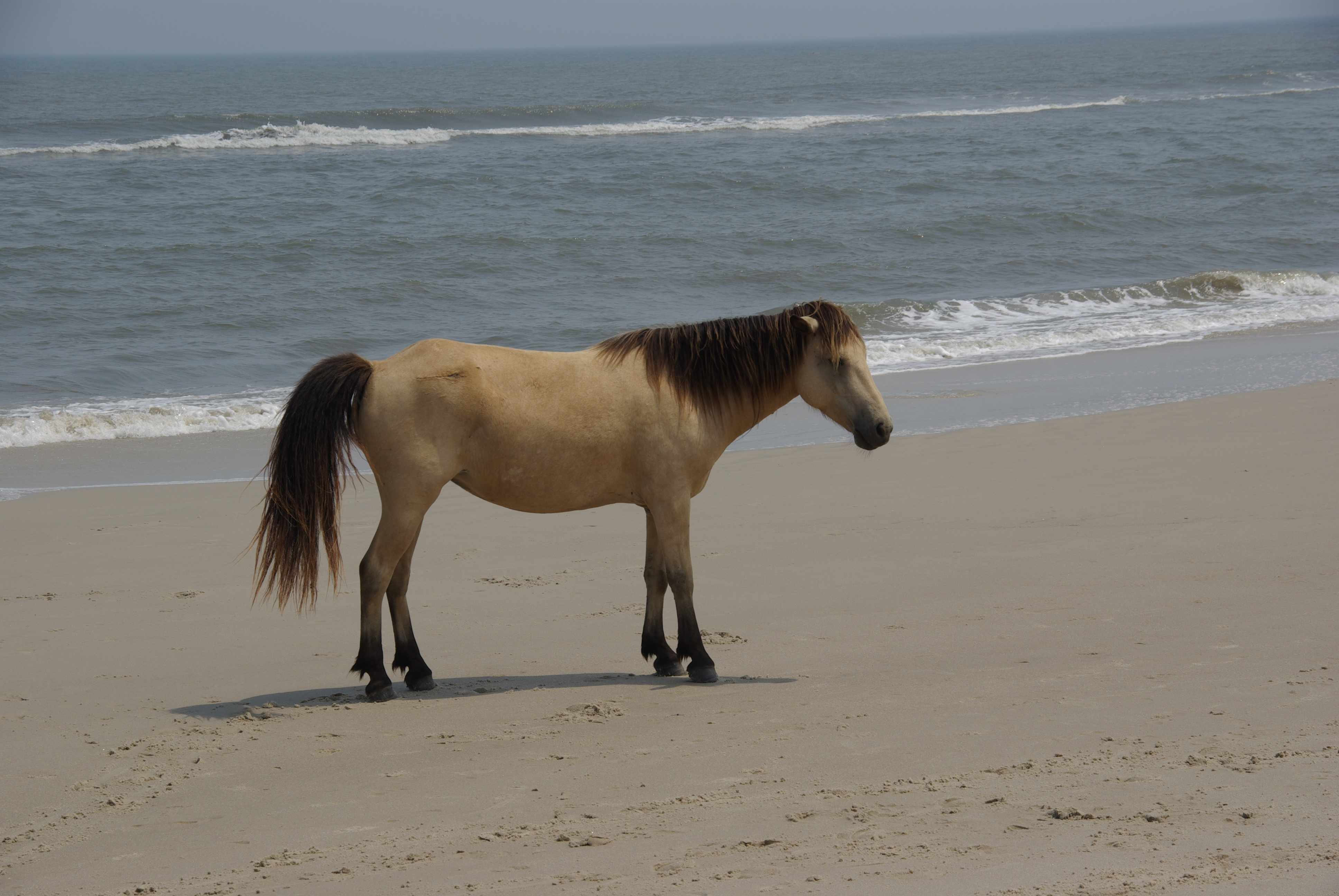 Assateague Pony on Assateague / Ocean City on July 4th